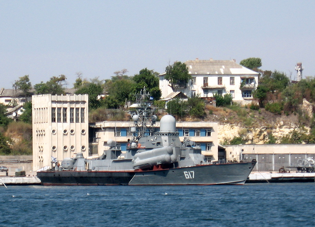 Small guided missile ship project 12341 Mirazh in Sevastopol.